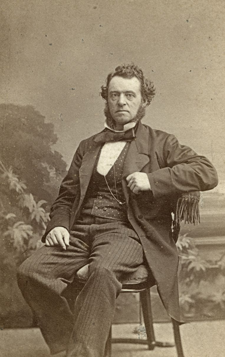 Photo depicting Hendrik Muller Szn. in 1862